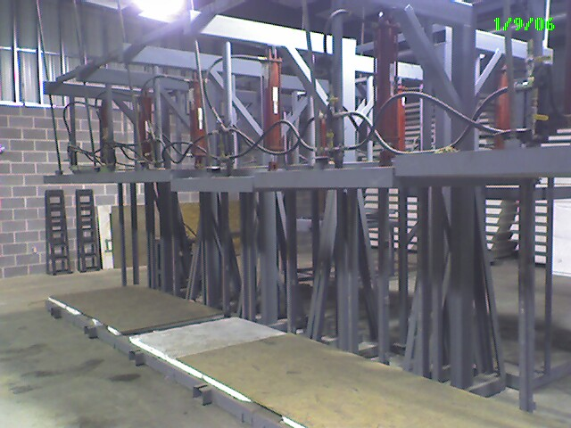 Hydraulic presses used to facilitate adhesive bonding & curing of concrete panels to the Expanded PolyStyrene (EPS) core. All components are first weighed, then a layer of adhesive is applied. After the pressure treating cure is complete (typically 24-36 hours), according to ICC and other protocols & standards, the completed panels are again weighed to record the amount of adhesive used.